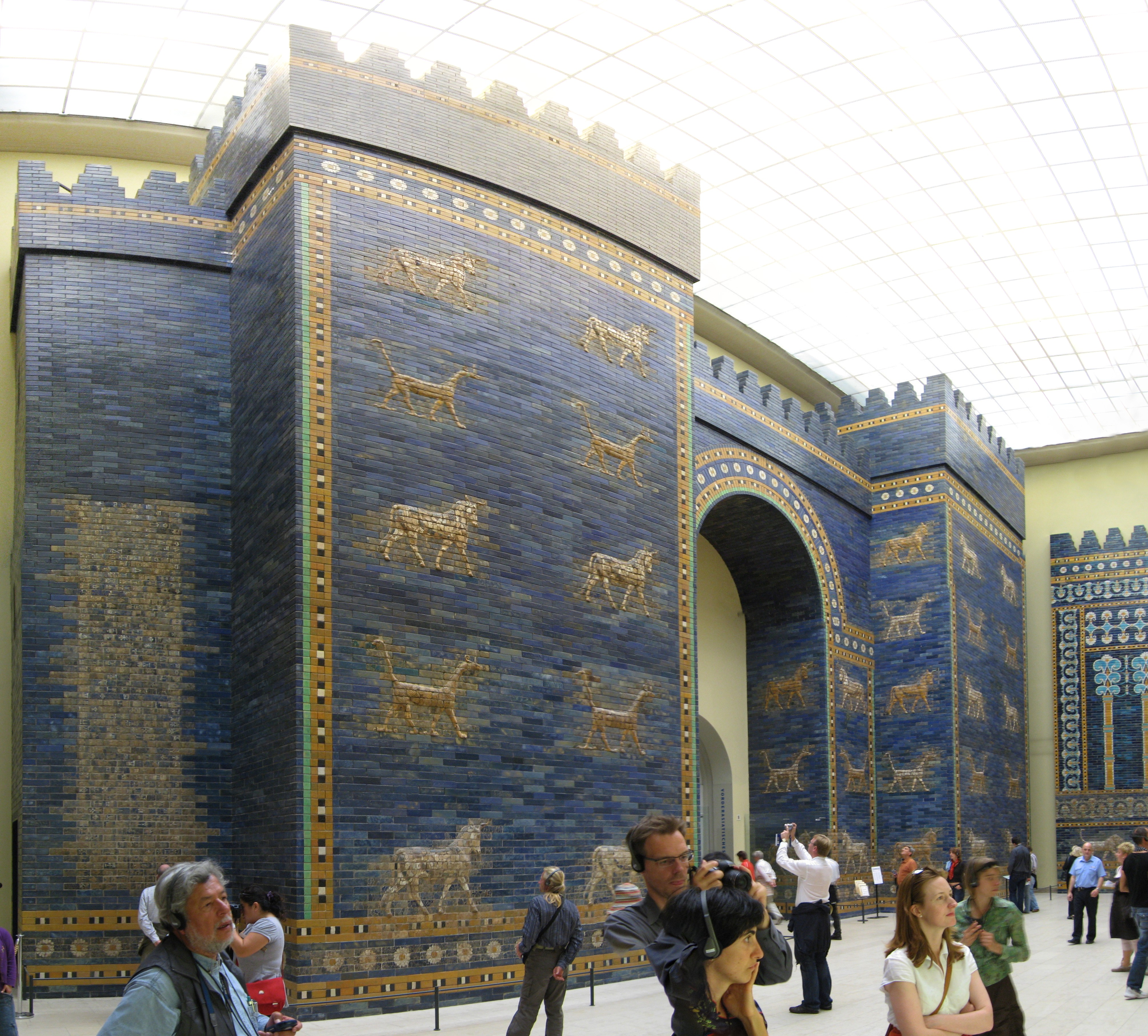 Ishtar Gate in the Pergamonmuseum